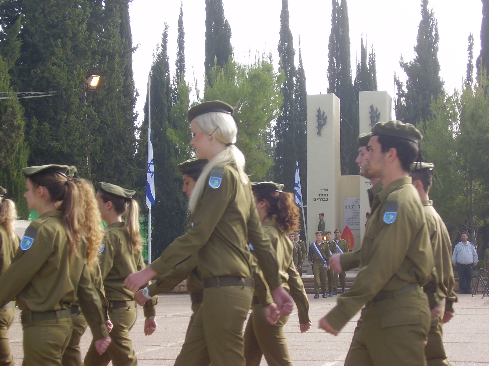 day of remembrance ceremony- 2009, in tel hashomer